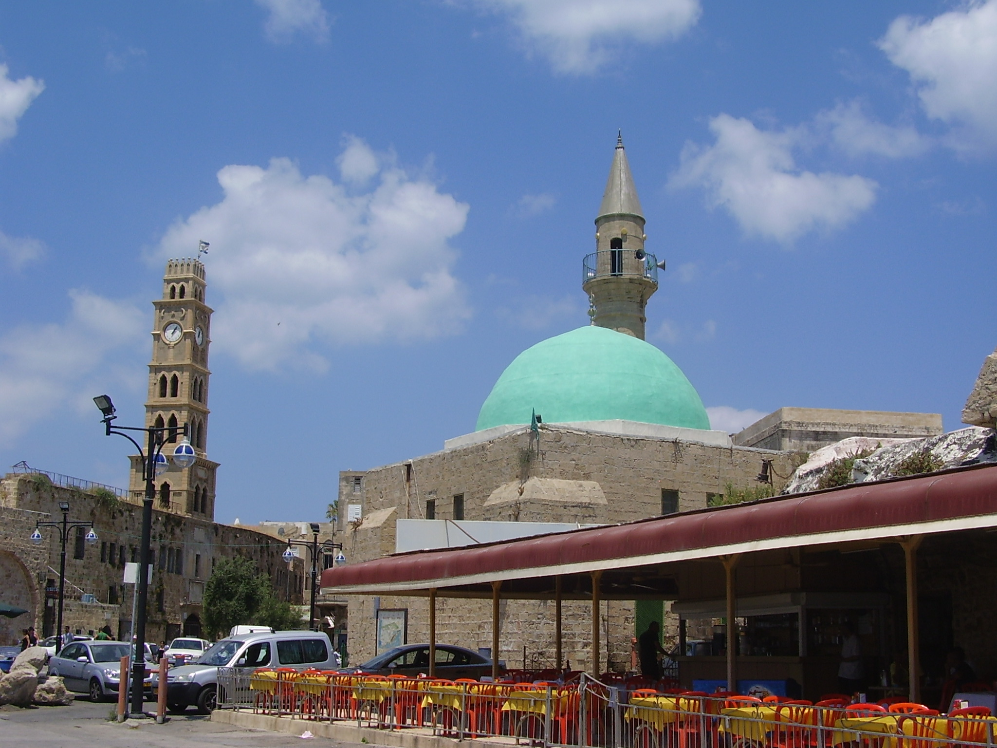 Sea Mosque and Khan al Umdan tower in Acre